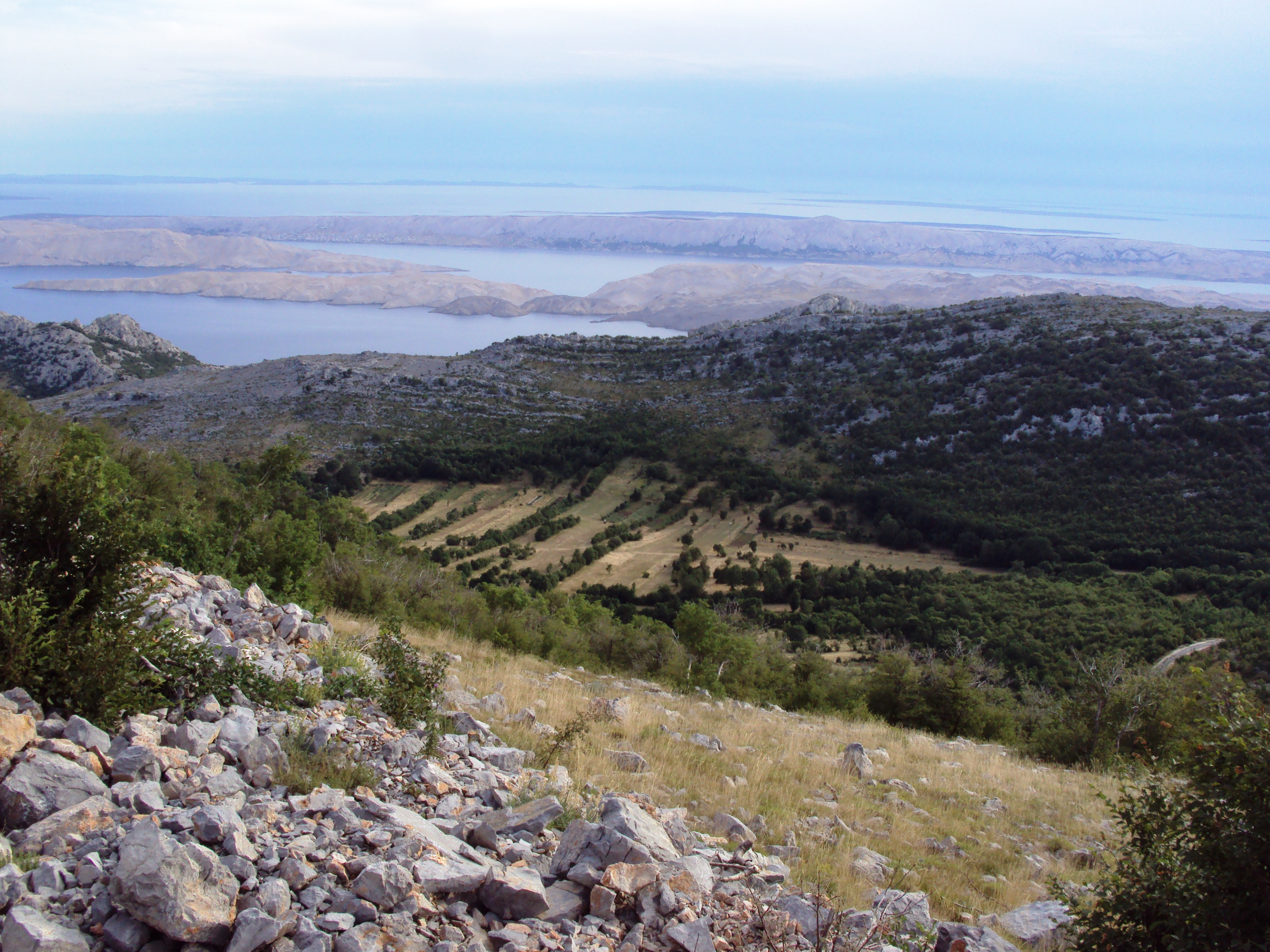 Mountain of Velebit with the view of island of Pag in Croatia